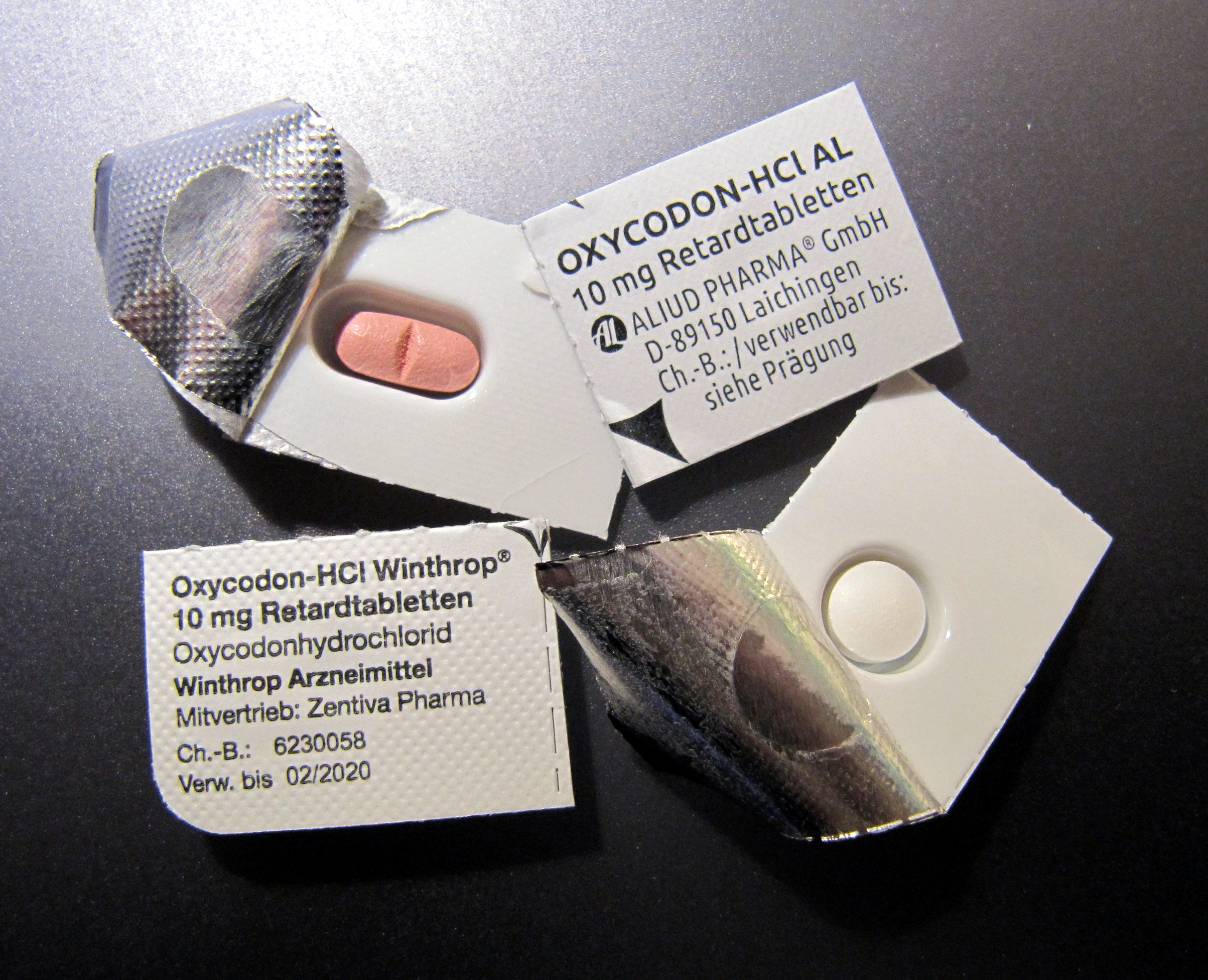 Two oxycodone tablet and their safety blisters (2018).